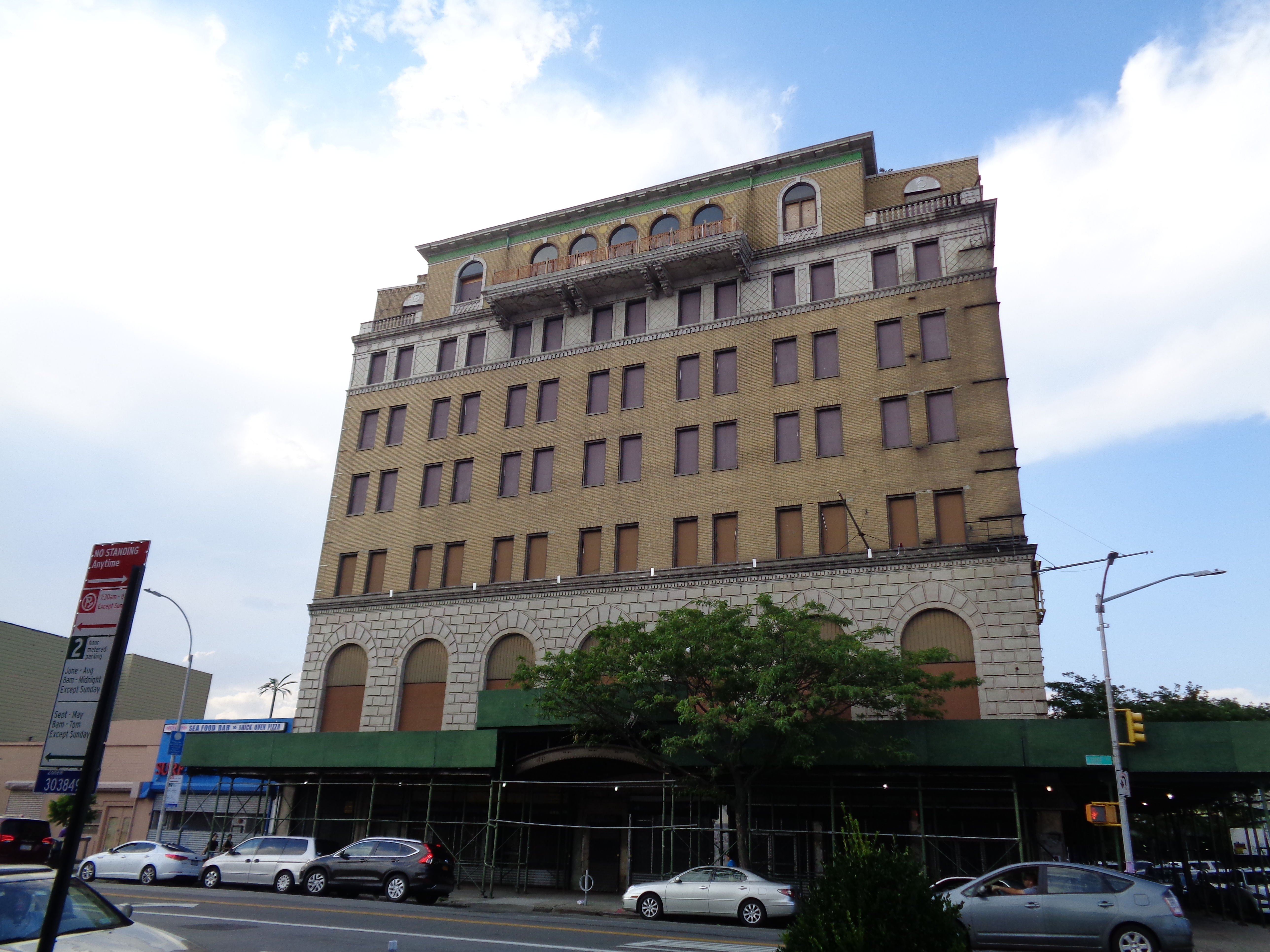 The Coney Island Shore Theater at Stillwell Avenue and Surf Avenue in Coney Island, Brooklyn, across from Nathan's Famous and the Coney Island subway station.